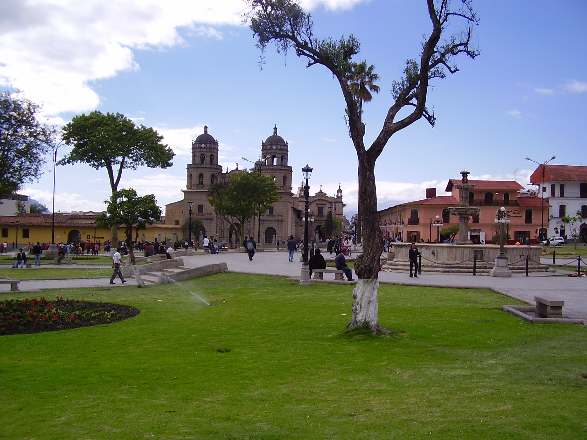 Plaza de Armas in Cajamarca